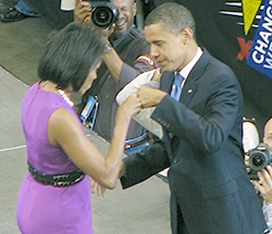 Michelle Obama and Barack Obama enjoy a fist pound at a rally in Saint Paul, Minnesota. Cropped and Auto-Leveled with v3.5.6.